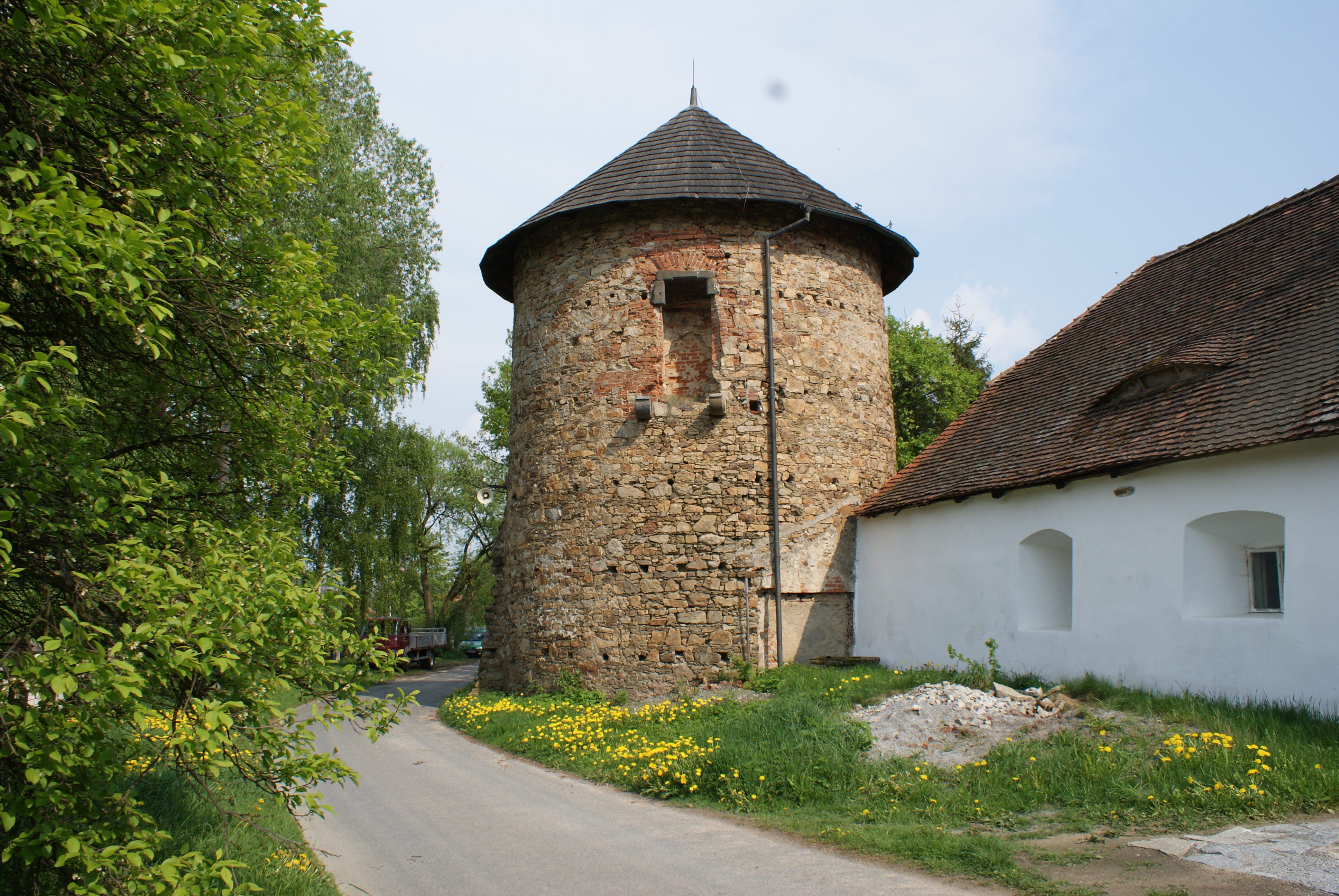 Drahonice village in Strakonice district, Czech Republic. Medieval tower, a remain of the former keep.